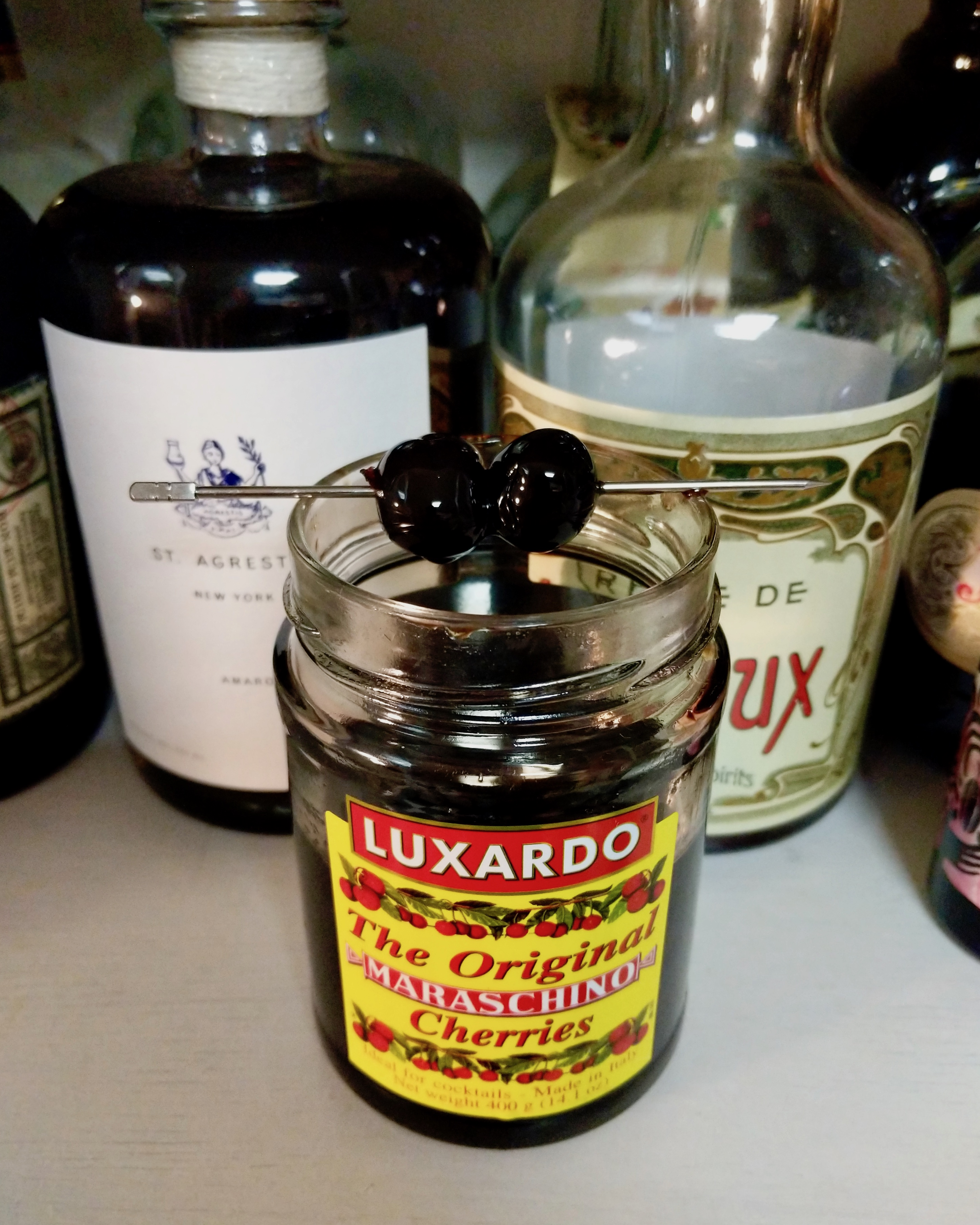 Two Luxardo-brand maraschino cherries are shown impaled on a cocktail pick, atop a jar of more of the same cherries in syrup, on a shelf of a bar amongst bottles of spirits, liqueurs, and bitters. Many higher-end brands of maraschino cherries such as those pictured omit the now-ubiquitous bright red dye typically applied to imitation maraschino cherries.